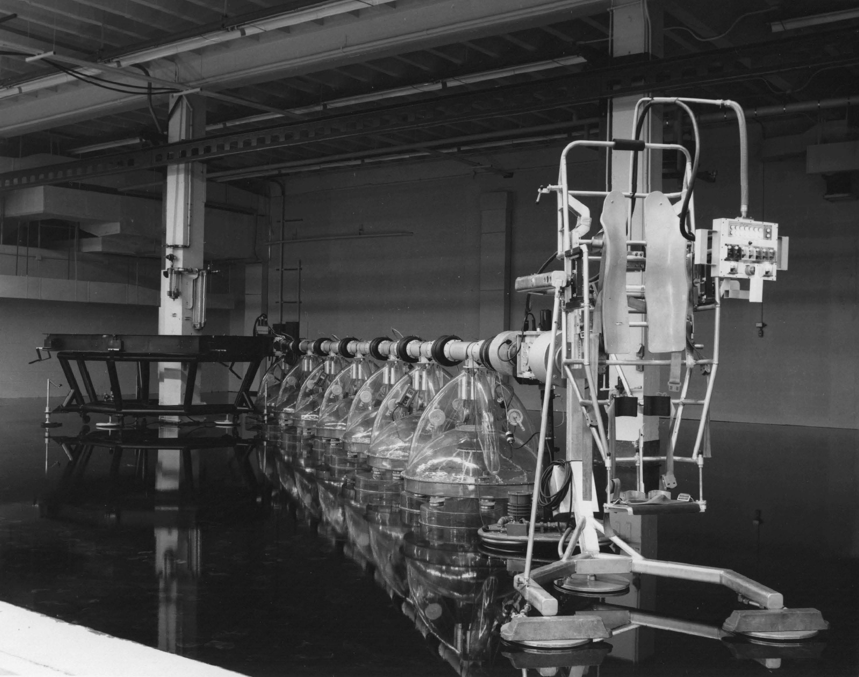 The Serpentuator is a 40-foot long articulated arm to aid astronauts on extra-vehicular activities with moving equipment and astronauts to particular locations outside Skylab. The Canadarm serves a similar purpose on the Shuttle, though it is not as dexterous. This photograph shows the Serpentuator at Marshall Space Flight Center flat floor facility of building 4711 set to be tested in two dimensions on air bearings in a manner similar to air hockey. At the near end of the serpentuator is a 5 degrees of freedom (5DF) chair which allows a person strapped in to translate freely in two dimensions as well as roll, pitch, and yaw. The switch bank to the right of the chair controls the Serpentuator. Things that look in this picture like jellyfish provide air bearing support along the length of the Serpentuator. NASA caption: Serpentuator, all Mak(?) straight, tip control out for viewing, inboard view. Photographer Moss